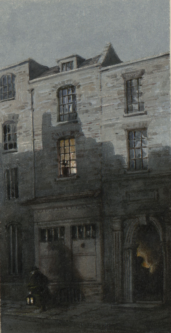 Examples of artwork on a variety of subjects and in a variety of styles by Francis Elizabeth Wynne from a sketchbook (ca. 420 drawings): mixed media, including watercolour, wash and, pen and ink.